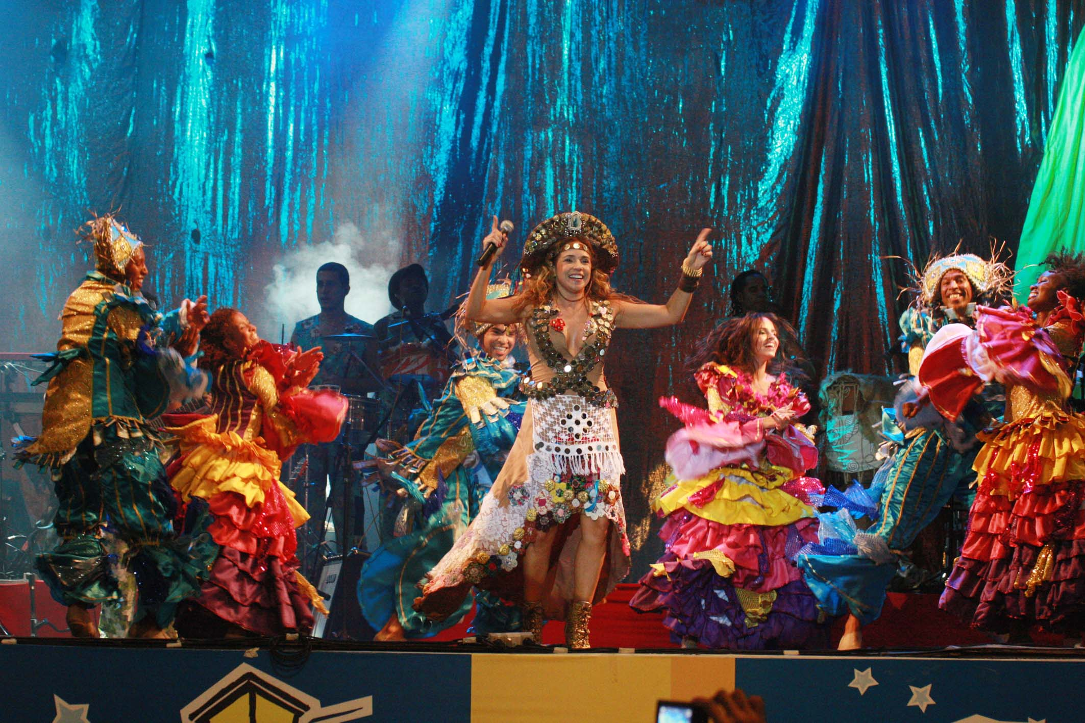 The singer Daniela Mercury was one of the attractions of São João do Pelourinho in 2009.